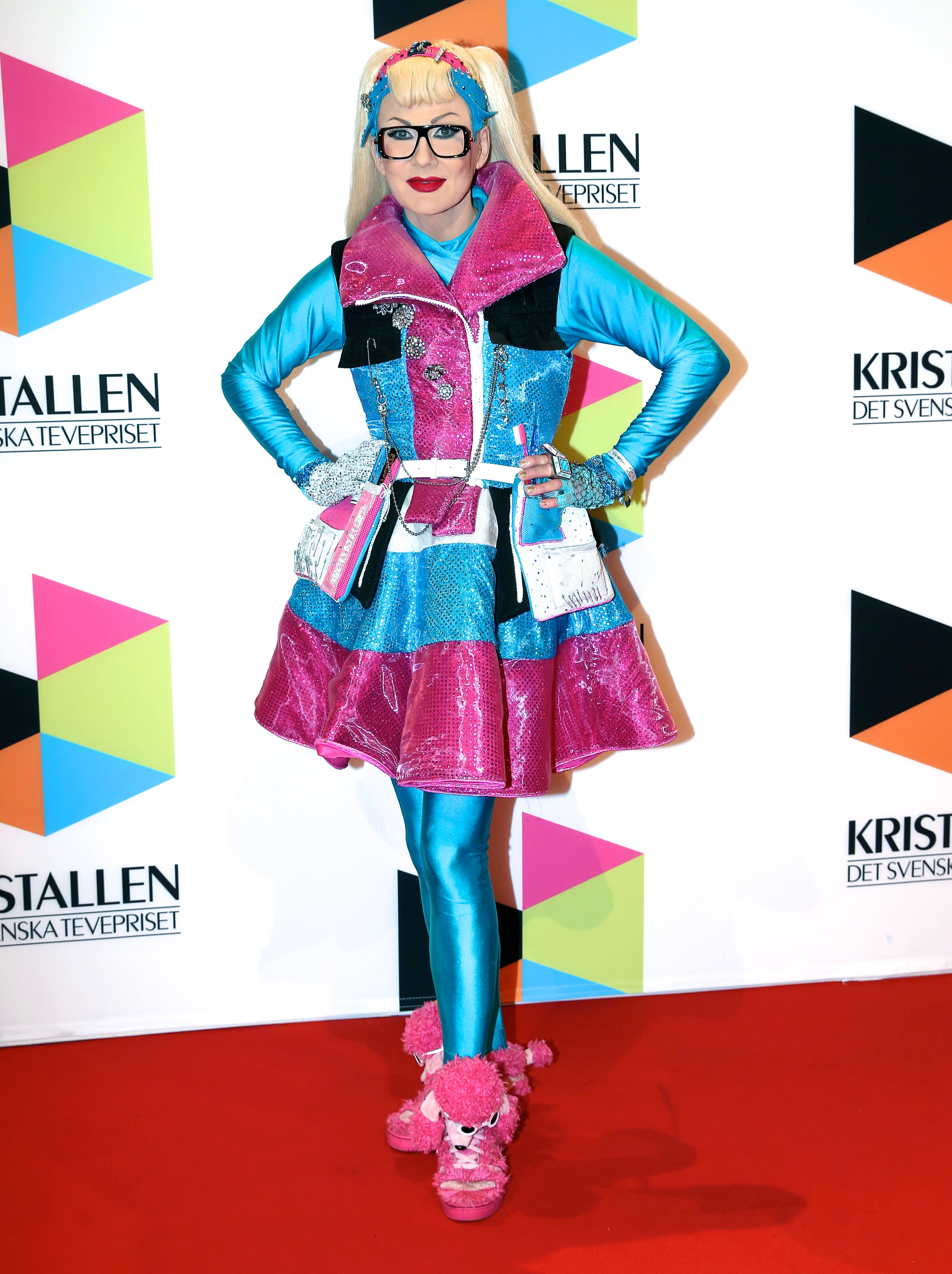 The Swedish children'sTV-host Peter Englund as his character SUPER PETER. Hosting the shows "Superdräkten" and "Supershowen"